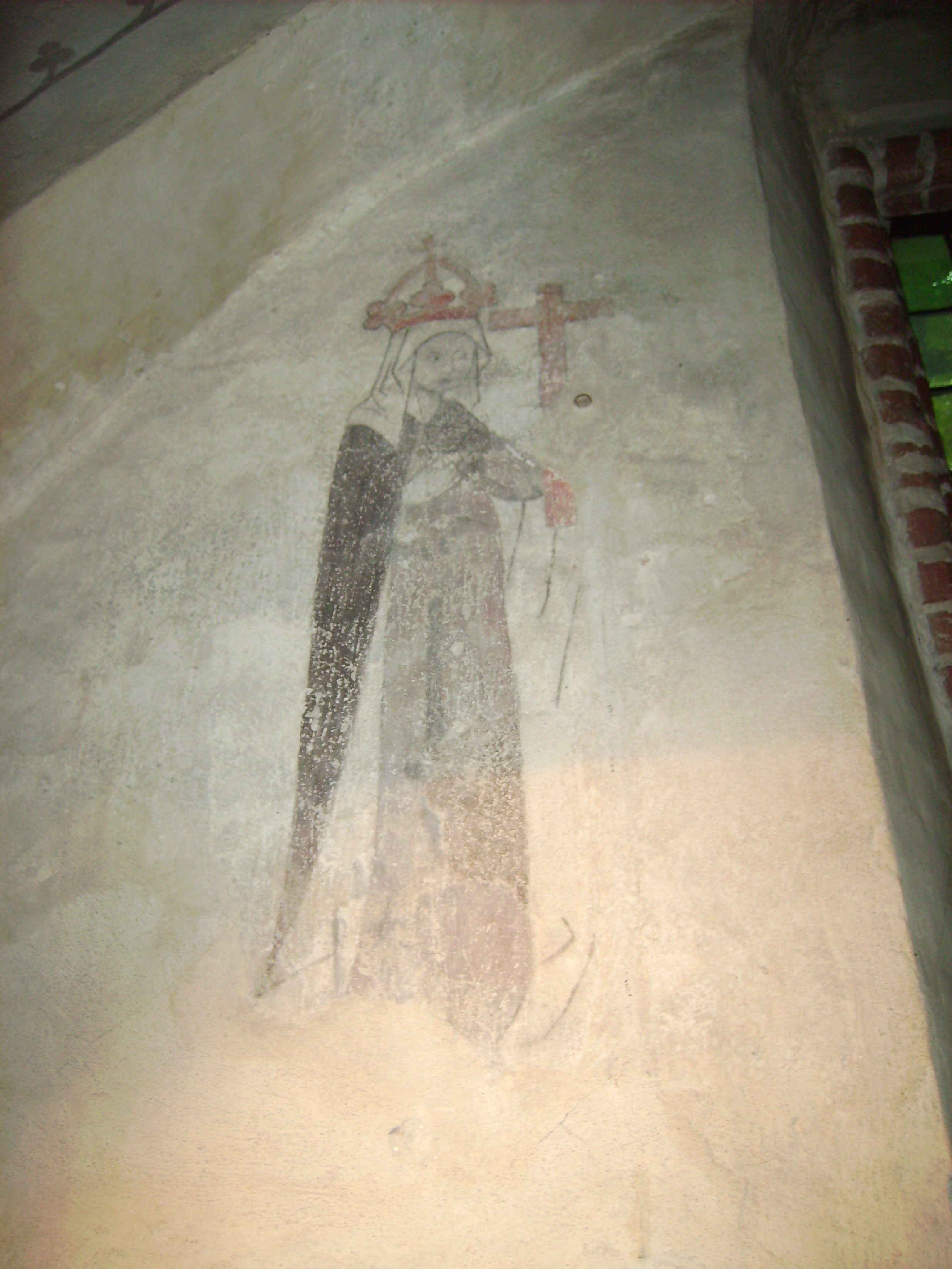 Medieval mural paintings in Cathedral of Åbo, Finland.